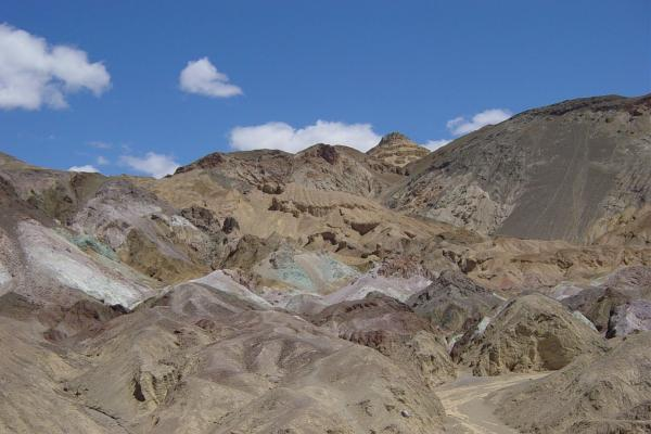 For more about the "Artist's Palette" area in Death Valley National Park, see Places of interest in the Death Valley area#Artist's Drive and Palette.